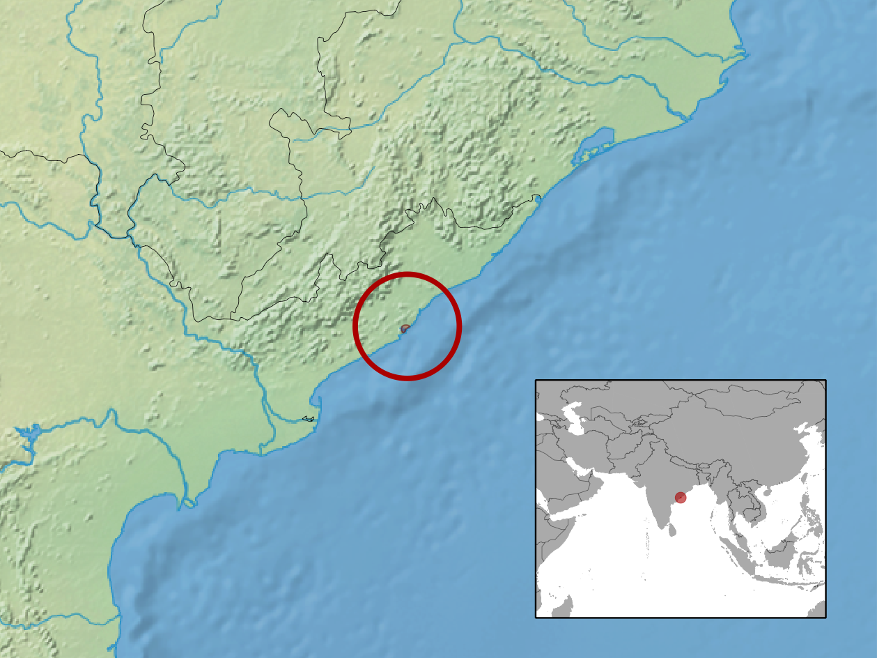 geographic distribution of Barkudia melanosticta